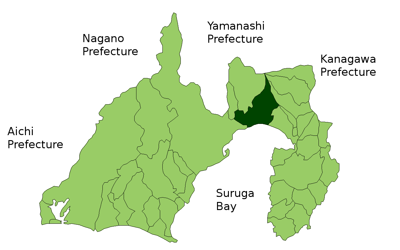 The location of Fuji in Shizuoka Prefecture, Japan